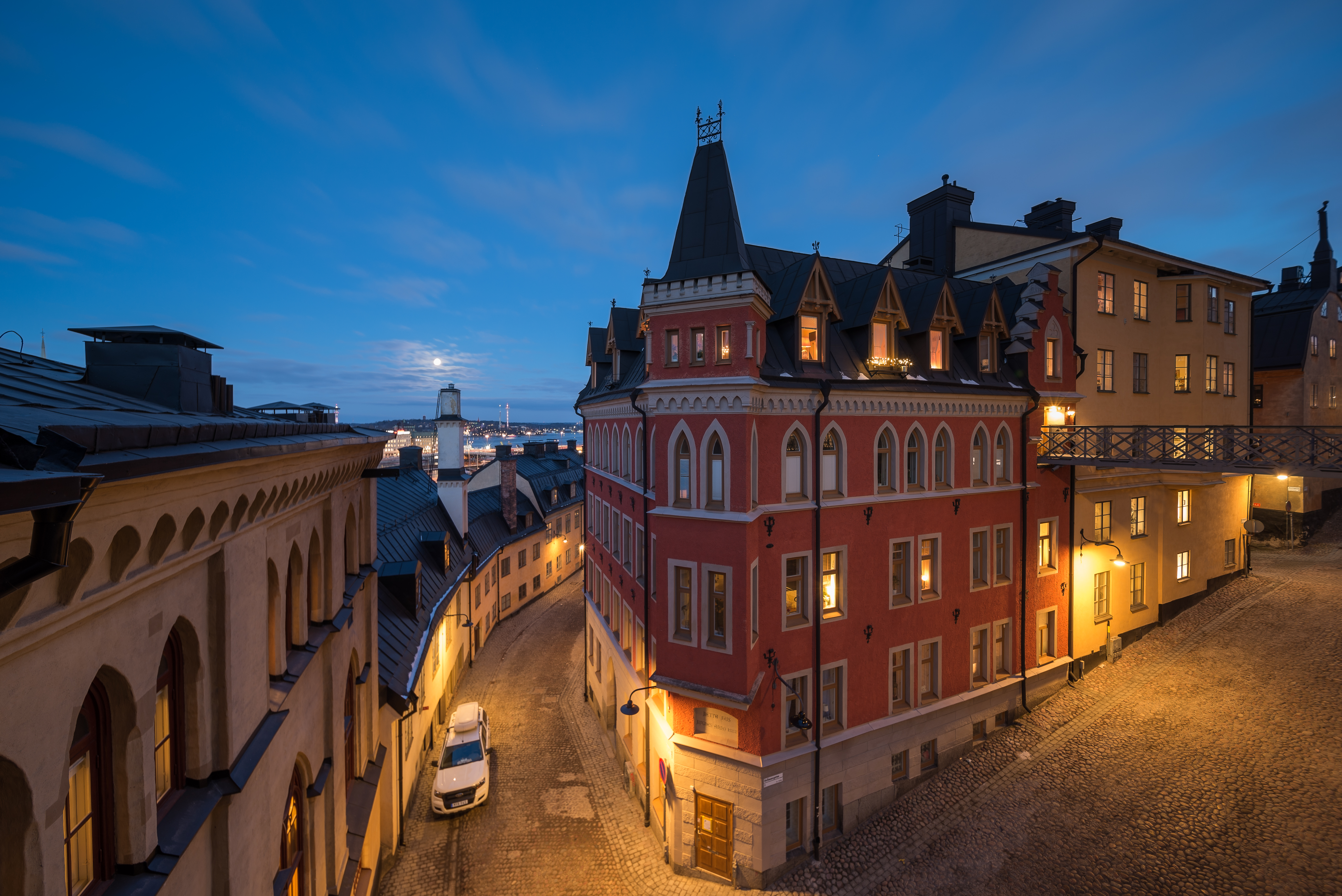 The streets Pryssgränd (left) and Bellmansgatan (right) and a residential building built in 1888 at Mariaberget in Södermalm, Stockholm. View from Mariahissen (Maria Elevator).